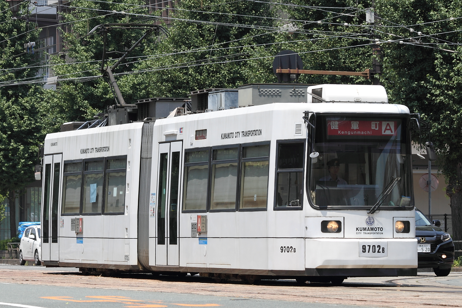 Kumamoto City Tram Type 9700 (No. 9702)。